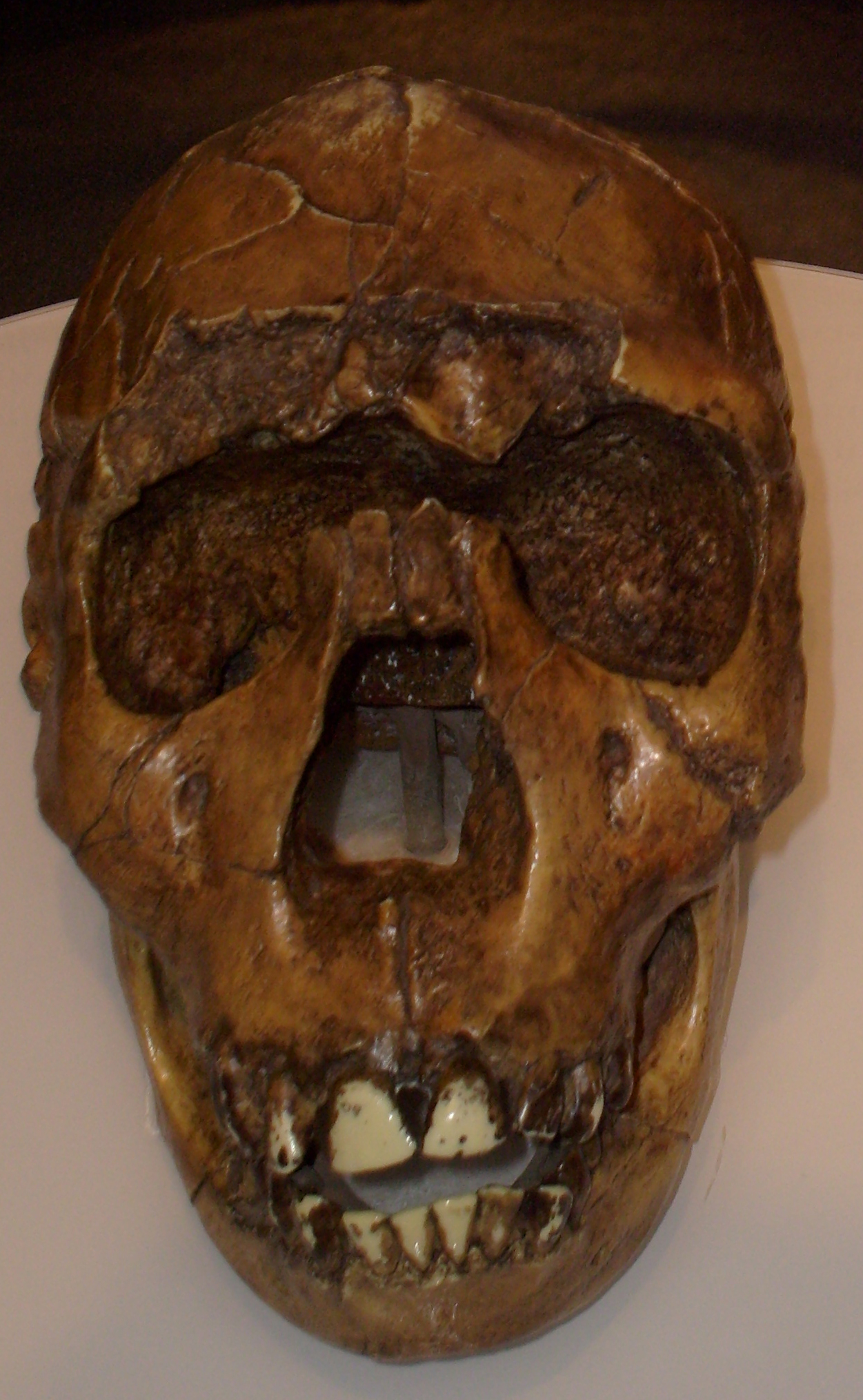 Homo ergaster skull reconstruction. Museum of Man, San Diego, California.